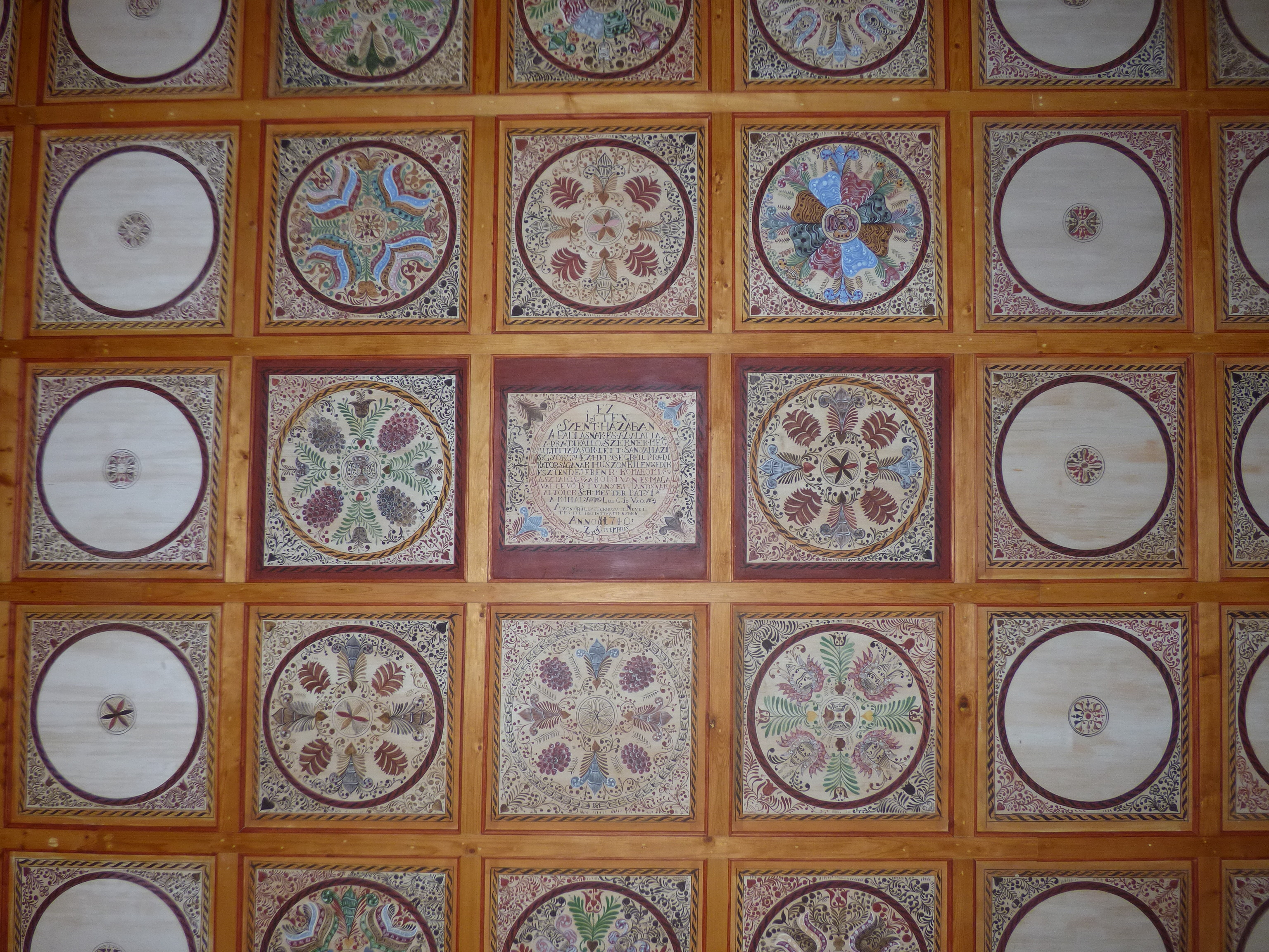 A töki református templom fakazettás mennyezete (a kazetták a XVIII. századi eredeti példányok másolatai)